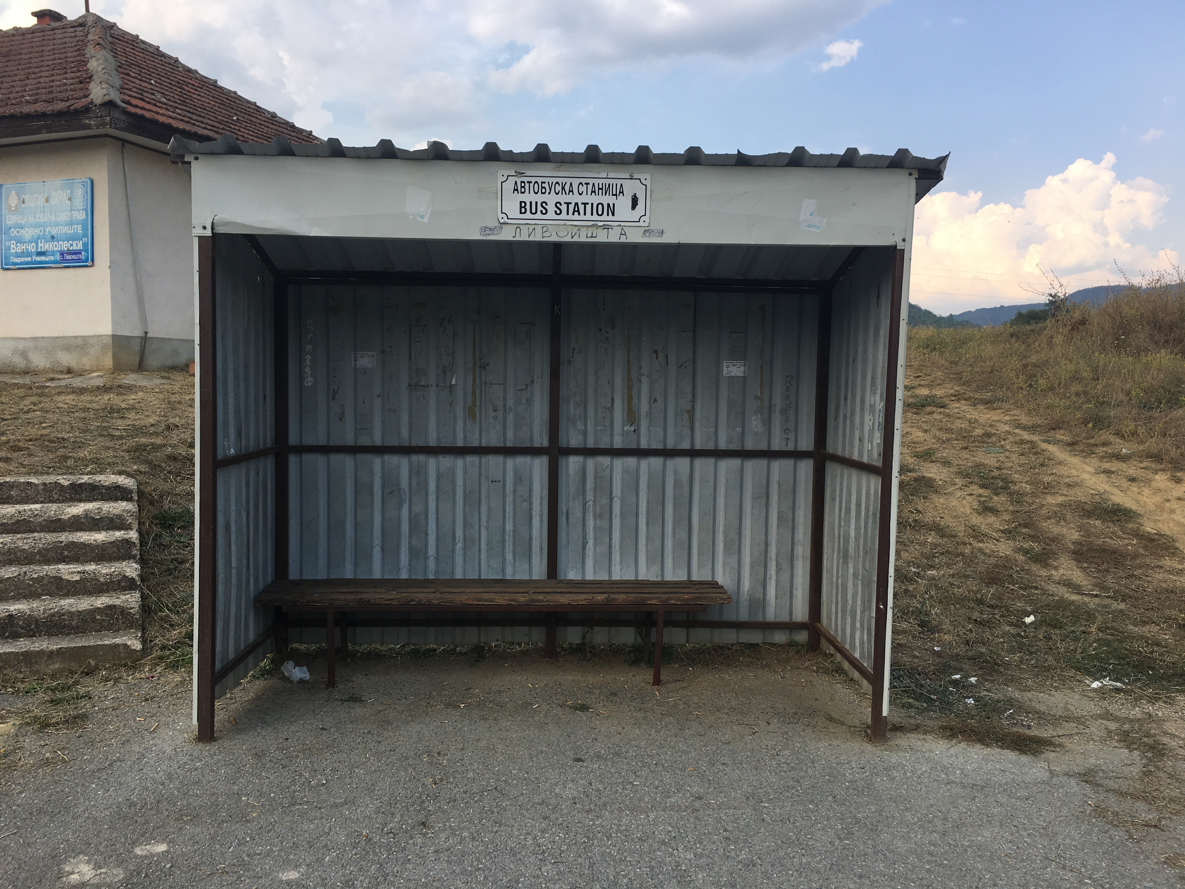 A bus stop in the village of Livoišta